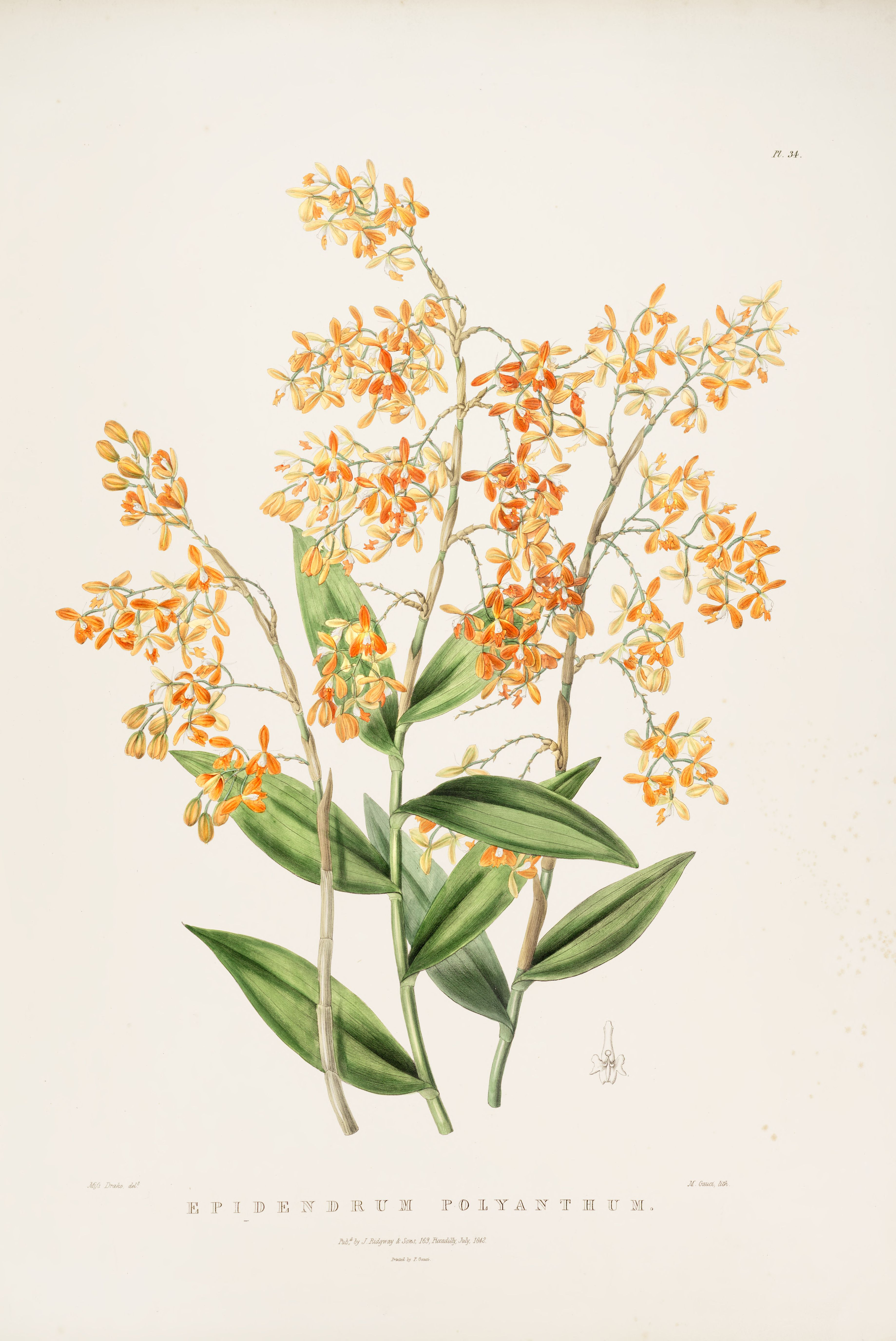 Illustration of Epidendrum polyanthum